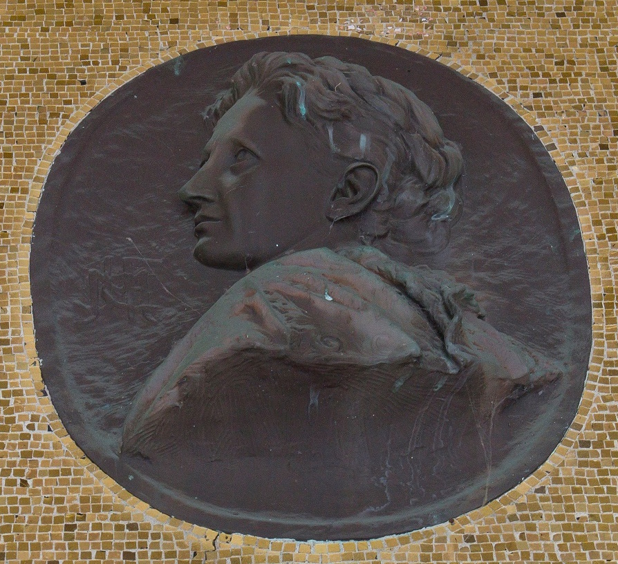 Bronze medallion of Jennie McGraw Fiske presented at the inauguration ceremonies of the University Library, now Uris Library, on October 7, 1891, by Henry Sage [Parsons, Kermit C. 1968. "The Great Library," The Cornell campus: a history of its planning and development. Ithaca, N.Y.: Cornell University Press, 169-170]. The medallion is above the entry-way of the Library Porch.